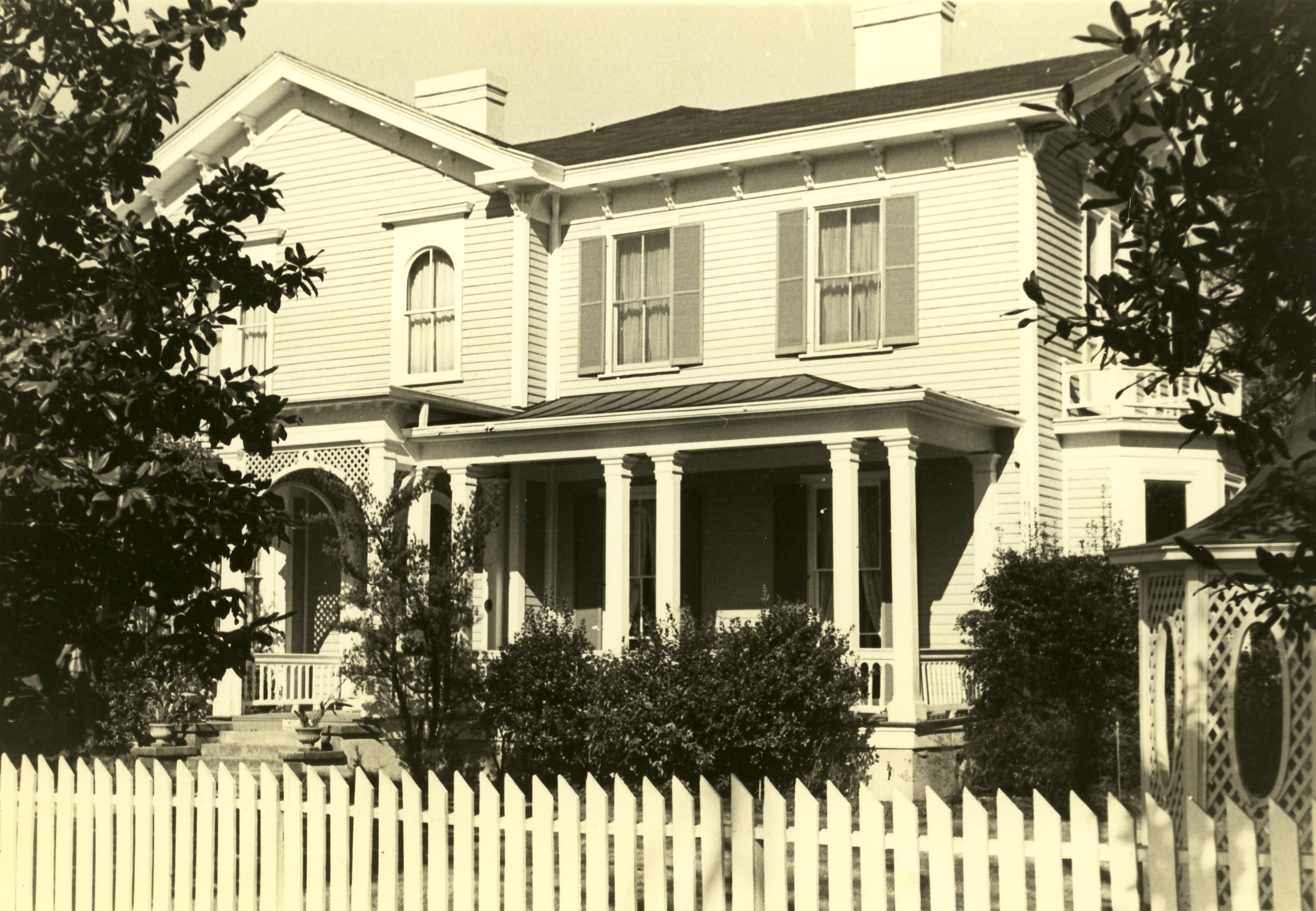 Woodrow Wilson Boyhood Home, 1705 Hampton St., Columbia (Richland County, South Carolina) cropped Woodrow Wilson Presidential Library Archive via Flickr